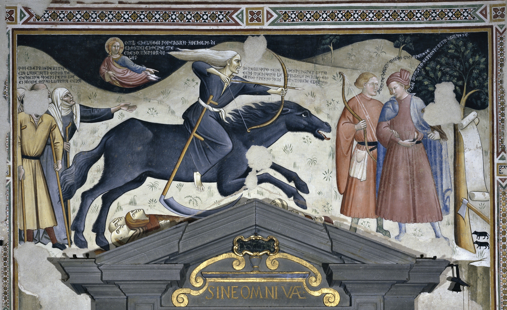 This 14th-century Triumph of Death fresco shows Death wielding a bow and arrow, with his scythe tucked into his belt. Overhead, Christ directs the viewer to the allegorical scene below. Death rides over a group of dead figures while taking aim at young nobles, themselves out hunting. Behind him are wretches and cripples, begging for release from their miserable lives. The Sienese painter Bartolo di Fredi was a pupil of Ambrogio Lorenzetti.